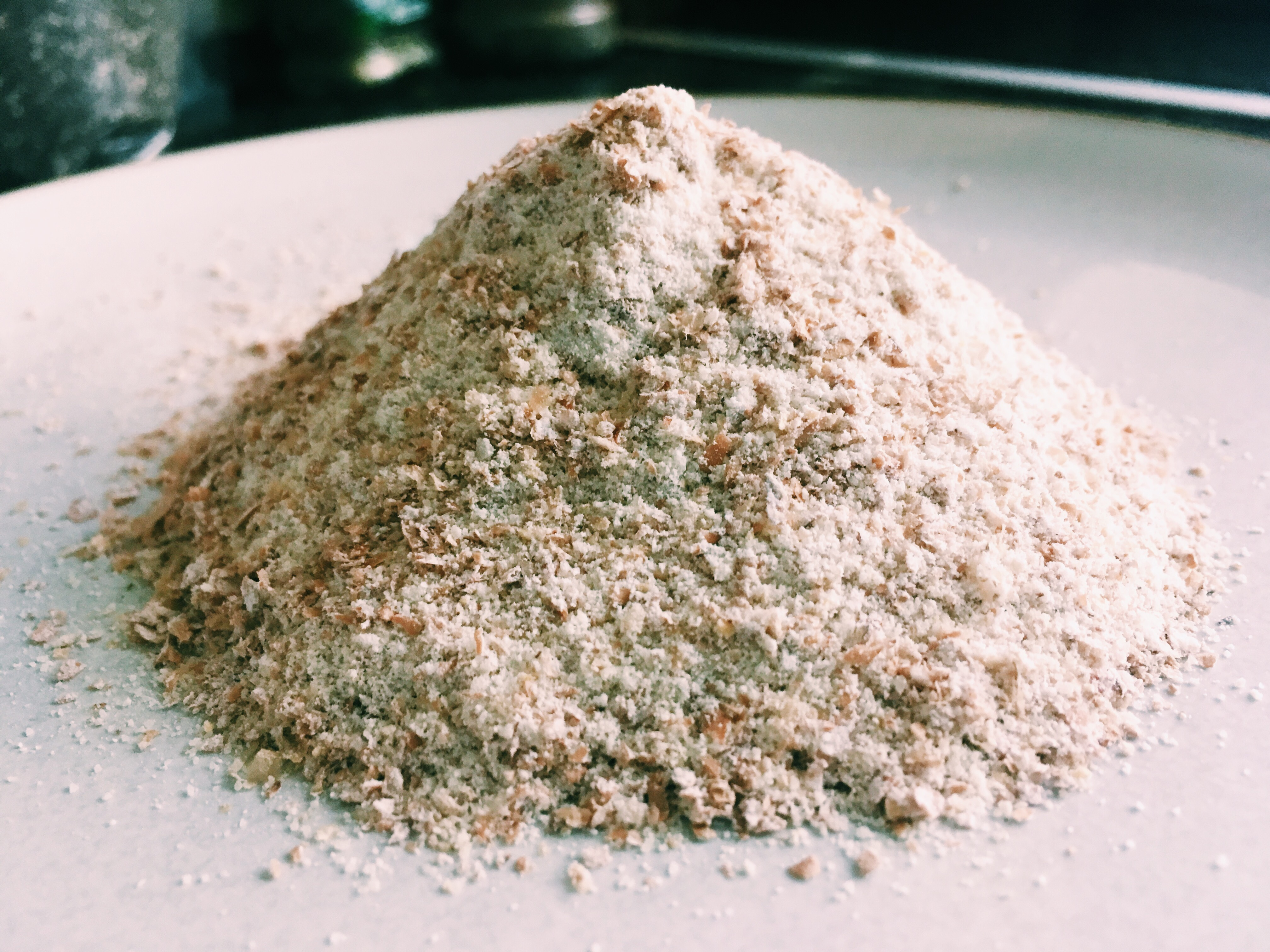 Polish wheat flour (mąka pszenna) on a plate.